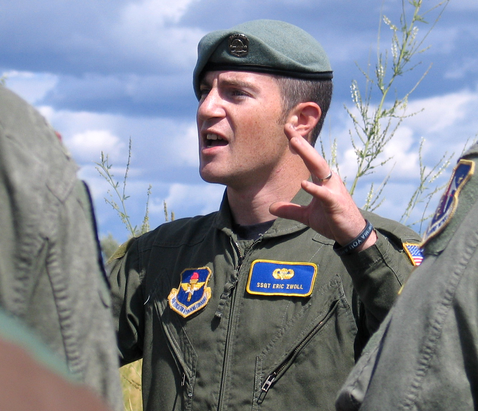 U.S. Air Force Survival (SERE) Instructor wearing SERE beret Original Image Caption: FAIRCHILD AIR FORCE BASE, Wash. – Staff Sgt. Eric Zwoll, instructor at the Survival, Evasion, Resistance and Escape school here, explains to his class how to jump safely with a parachute, going over everything from leaving the aircraft to overcoming equipment malfunctions and evading forces on the ground. Sergeant Zwoll was one member of a four-man SERE team from Fairchild that placed fourth in the Leapfest 2007 competition this month, an annual parachute competition that included 59 teams this year, from the United States and ten other countries.